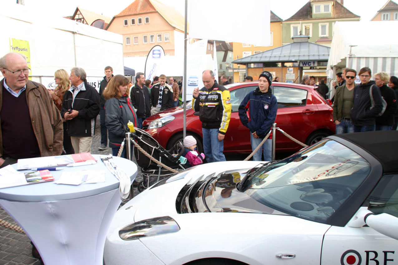 electromobility Bad Neustadt (Germany) – vehicle exhibition 2013